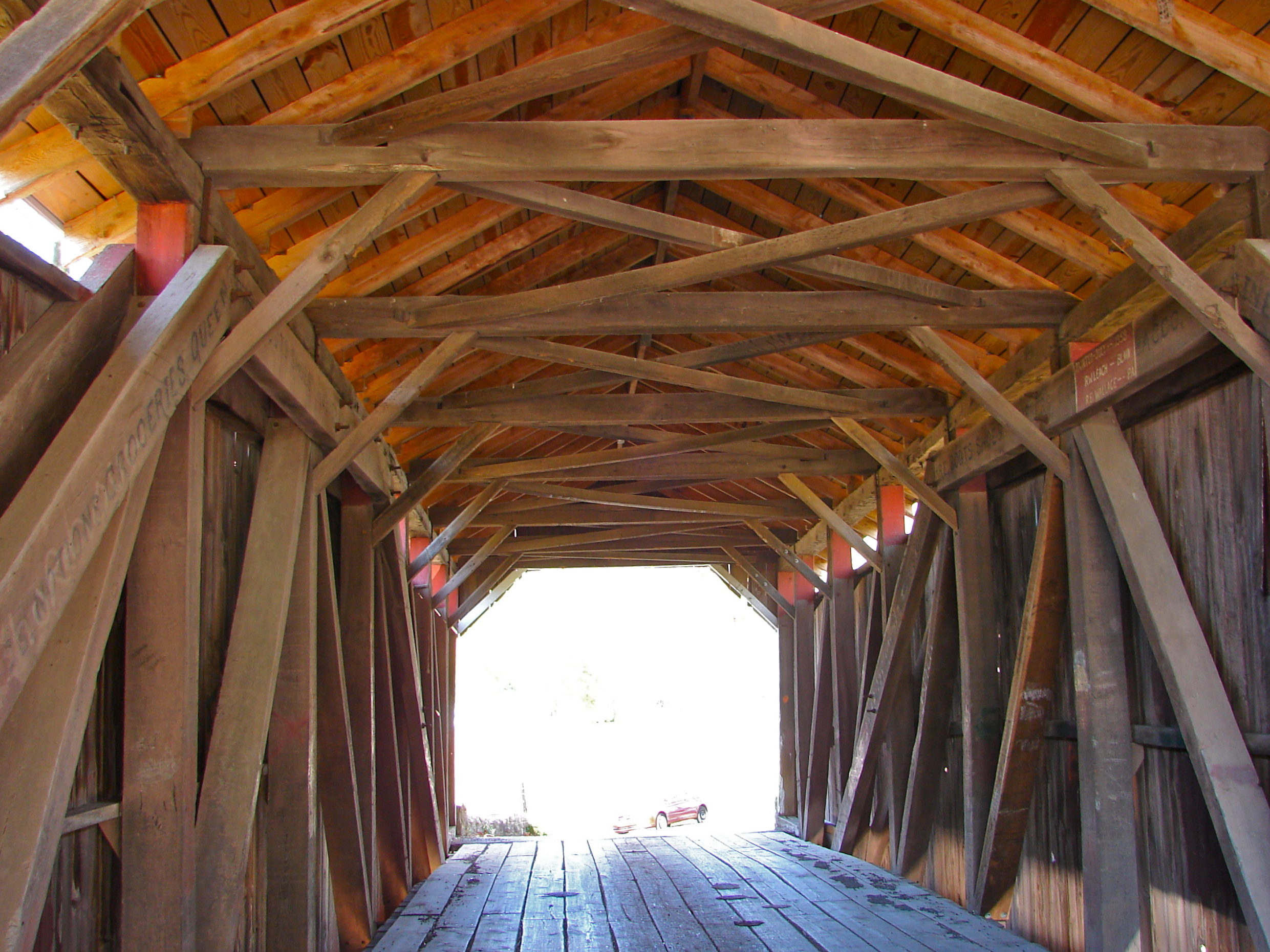 Interior of New Germantown Covered Bridge on the NRHP since August 25, 1980. South east of New Germantown on Township 302 (Lower Buck Ridge Rd), Toboyne Township, Perry County, Pennsylvania